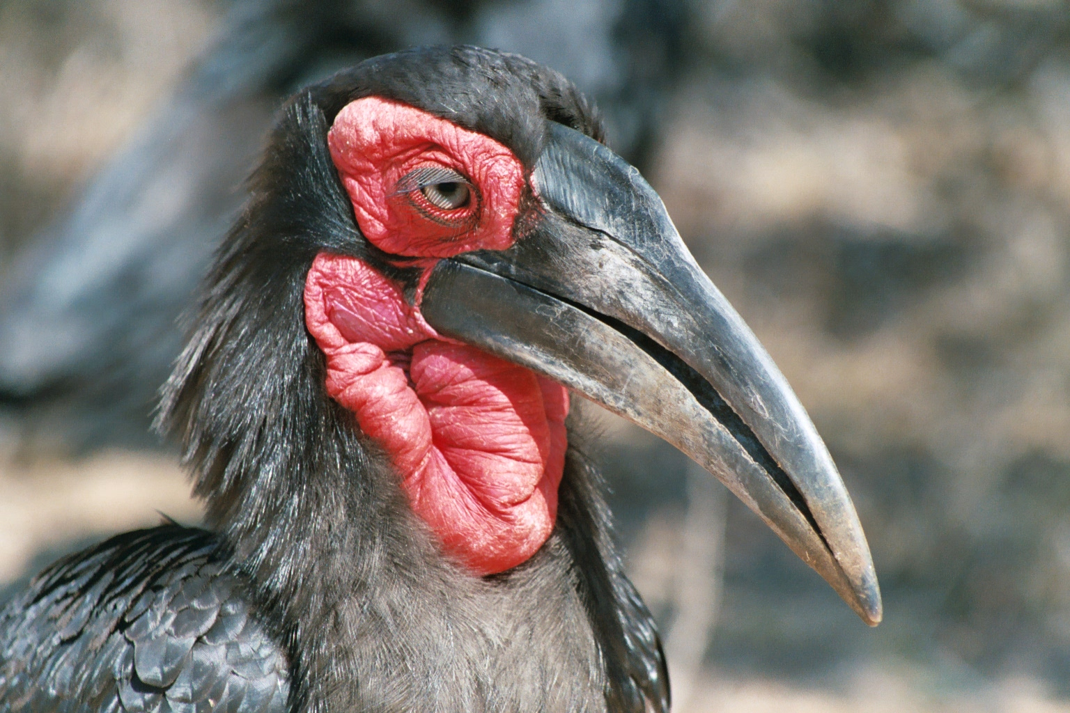 Bucorvus leadbeateri, Ground Hornbill, South-Africa, Kruger Park, August 2003.